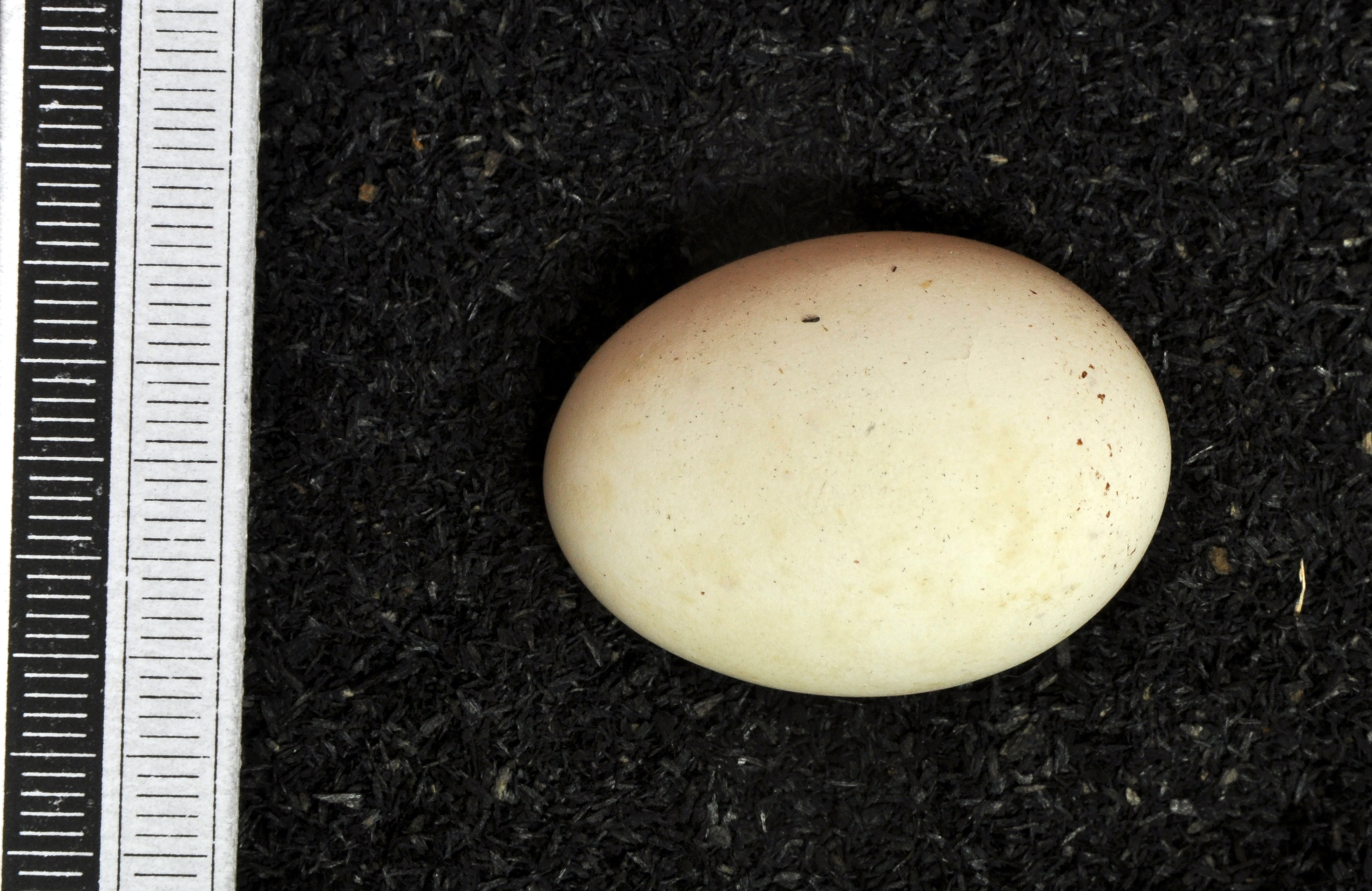 Leach's storm petrel Oceanodroma leucorhoa , egg, Coll. Museum Wiesbaden